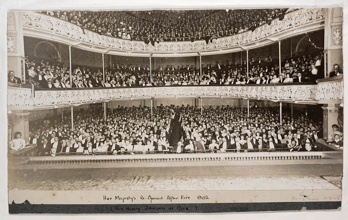 Format: Photograph Search for more great images in the State Library's collections: .au/search/SimpleSearch.aspx From the collection of the State Library of New South Wales Permanent URL: .au/item/itemDetailPaged.aspx?itemID=439982